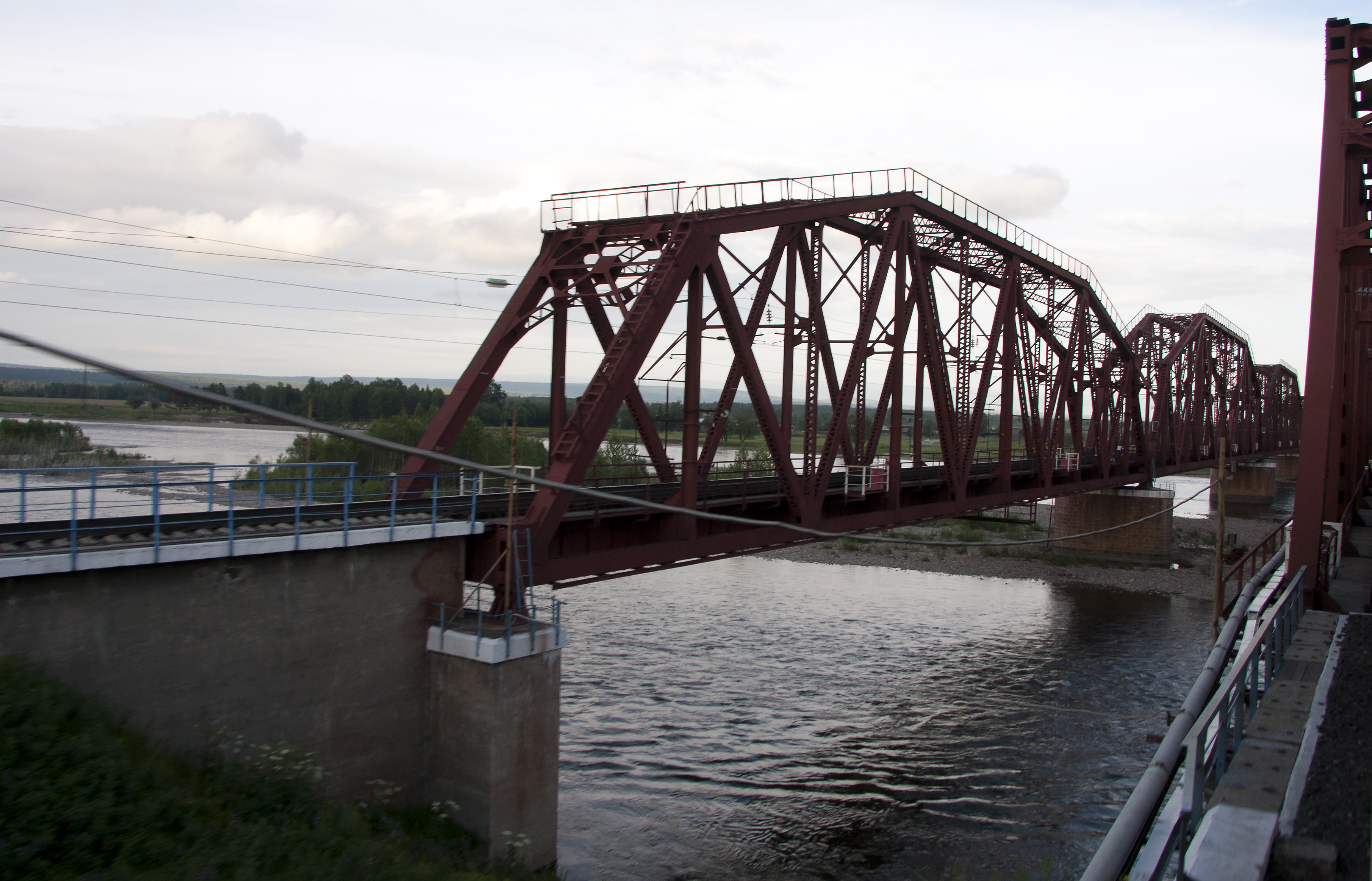 The Transsiberian railway crossing Chuna River near Nizhneudinsk.